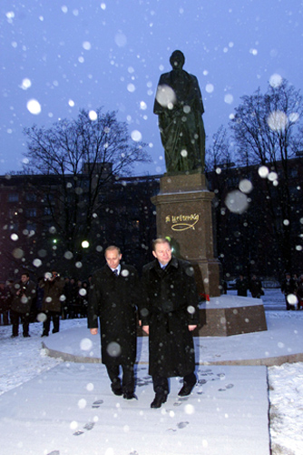 ST. PETERSBURG. President Putin and Ukrainian President Leonid Kuchma during the unveiling of a monument to poet Taras Shevchenko.